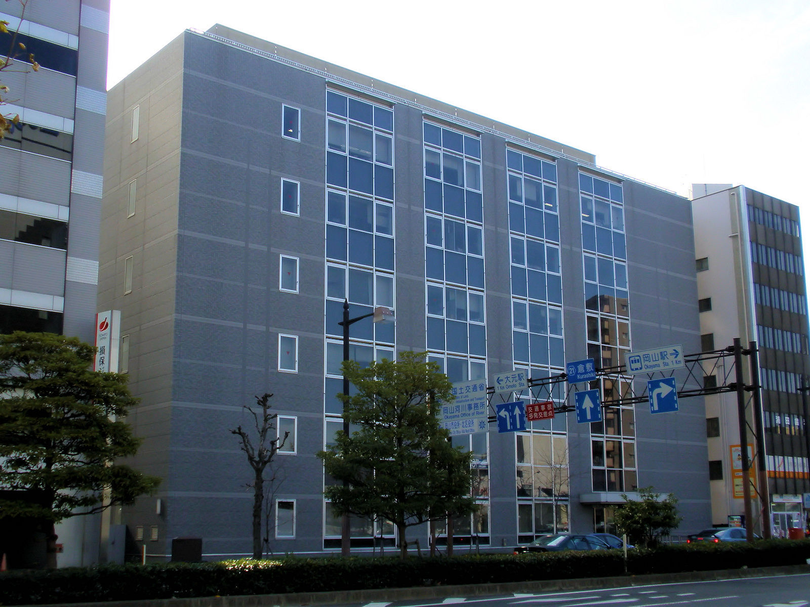 Okayama city hall annex, and Kita ward office annex